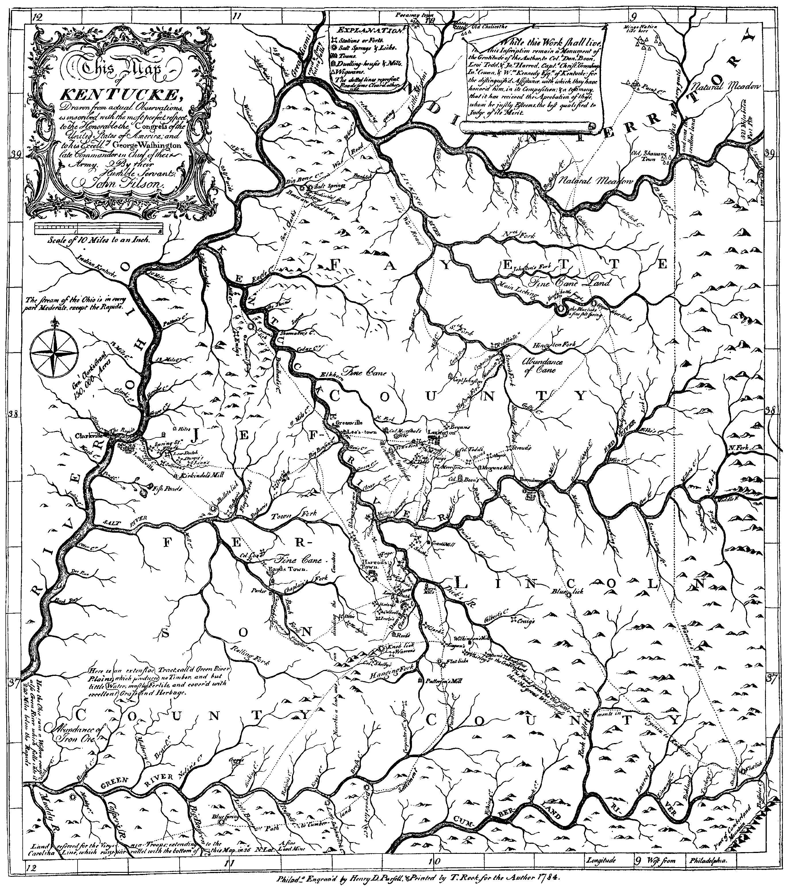 Map of Kentucke published in 1784 along with The Discovery, Settlement and Present State of Kentucke by John Filson.